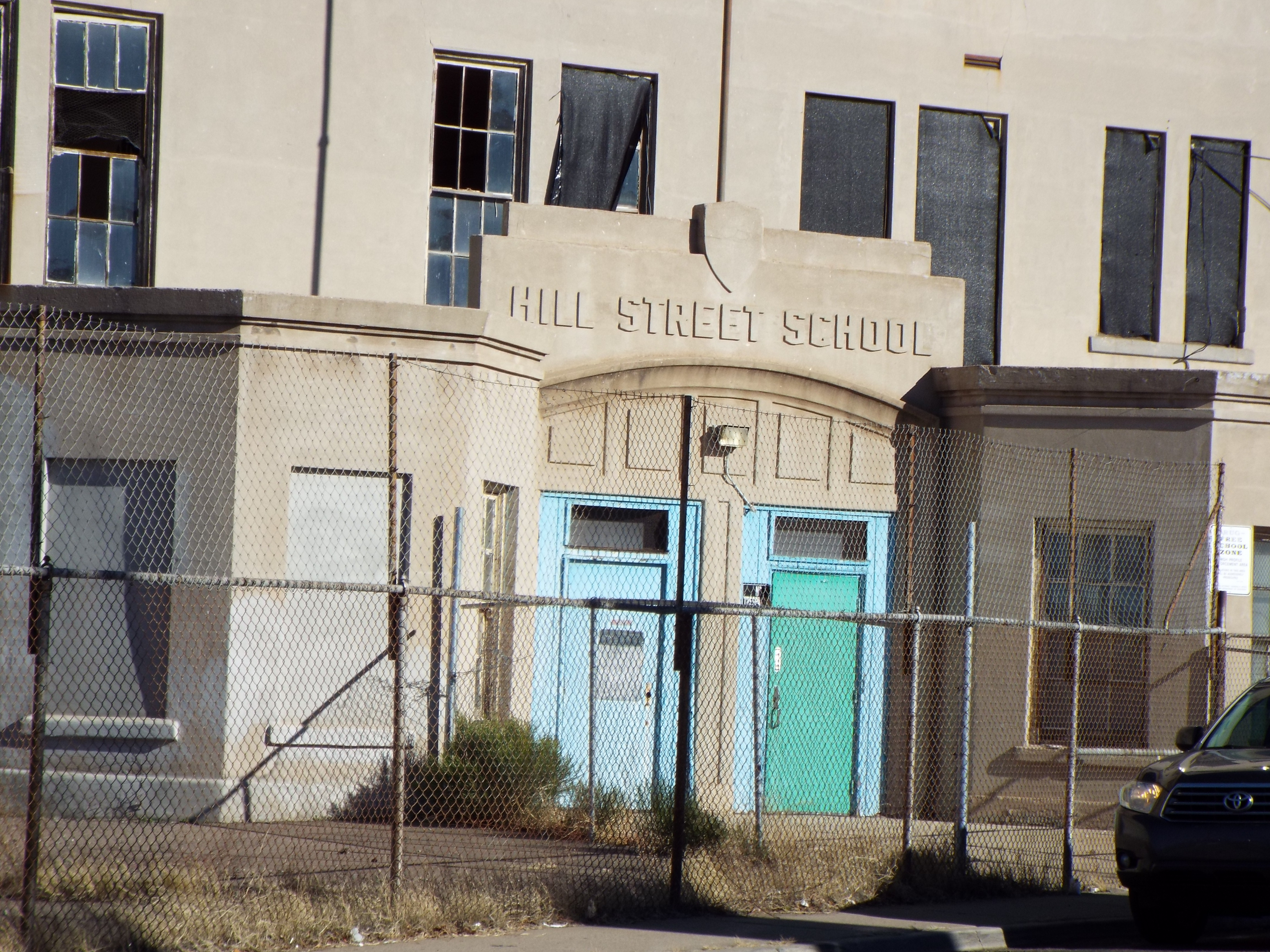 Hill Street School - The school structure is located at 450 Hill Street and was built in 1913.